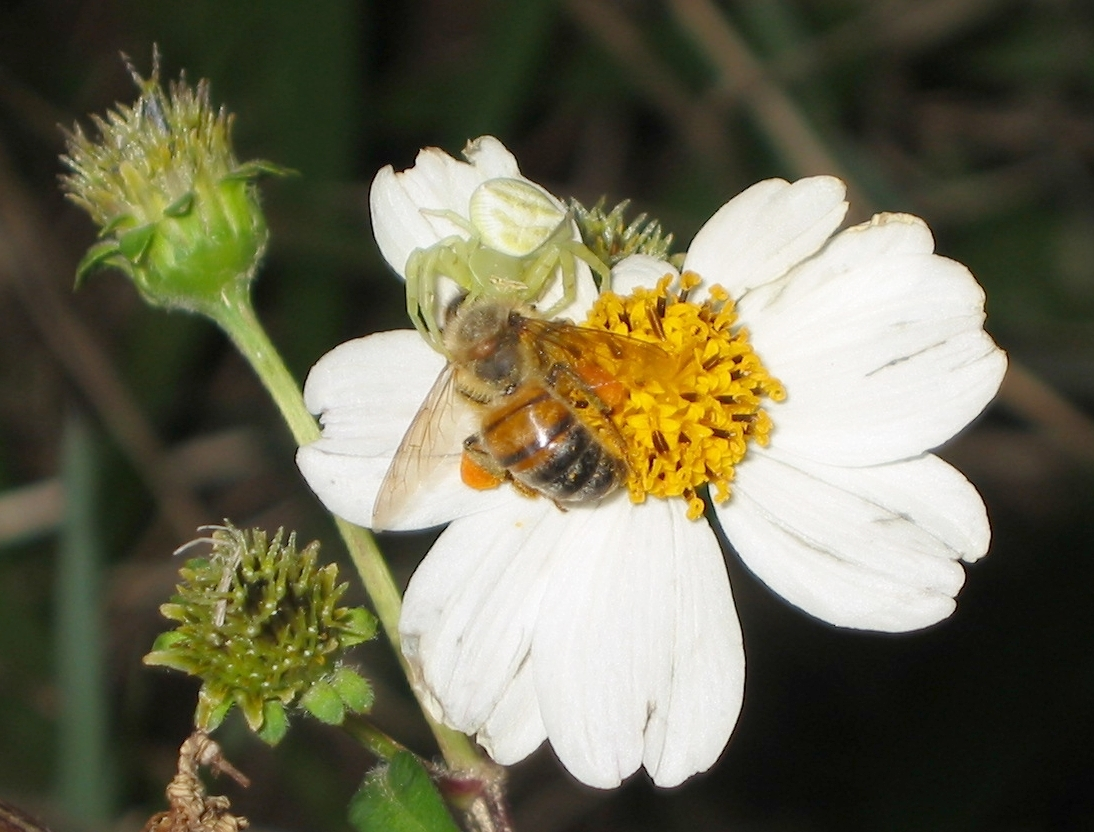 Thomisus okinawensis Strand 1907, catch a bee. The photo was taken at Toyohara, Iriomote island, Okinawa, Japan.